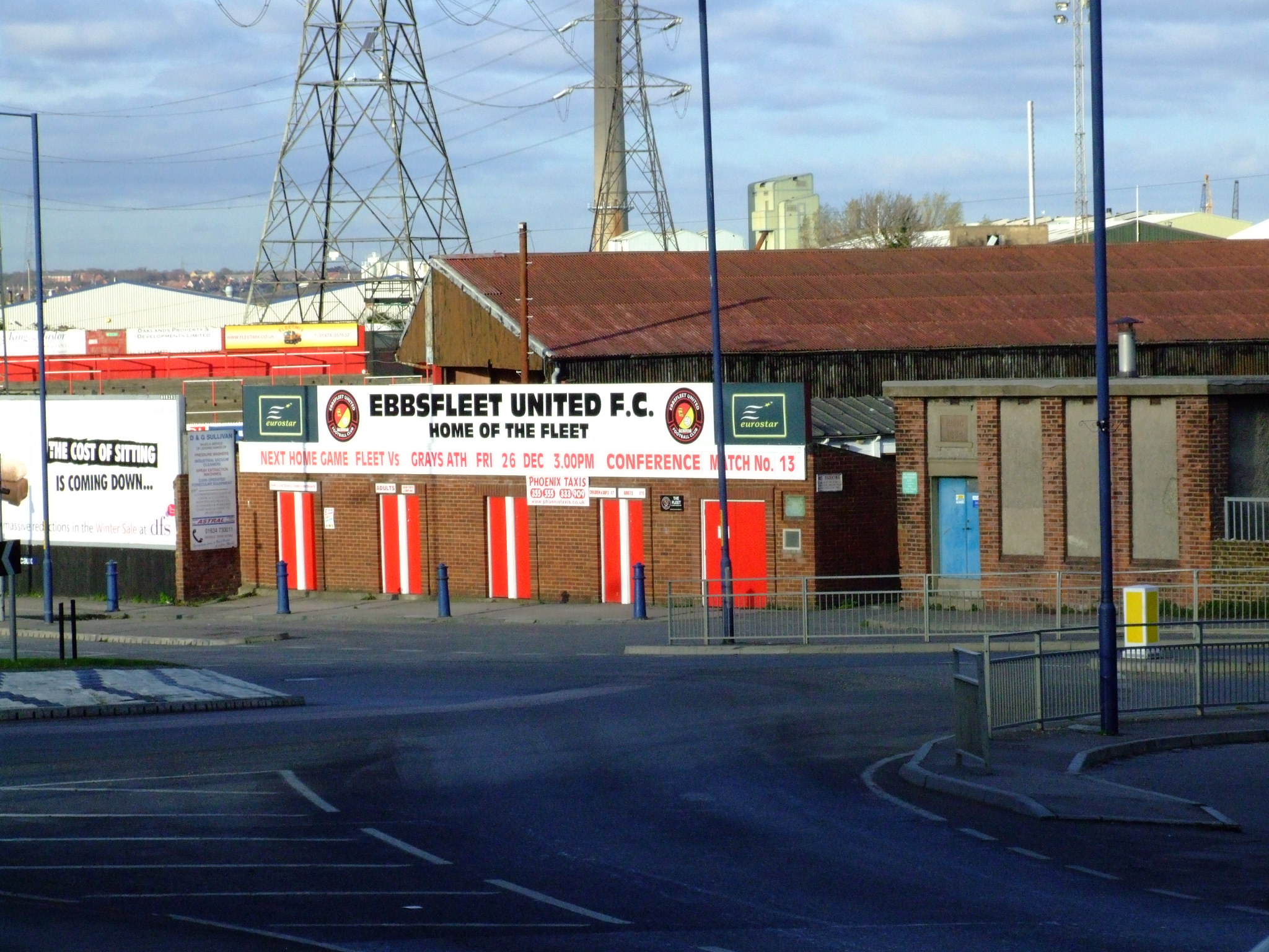 Northfleet merges with Gravesend in Kent. It is on the River Thames estuary. The shore has been excated for chalk, and heavy industry used the recovered land.. Ebbsfleet United Footbal Stadium - OpenStreetMap (Info)